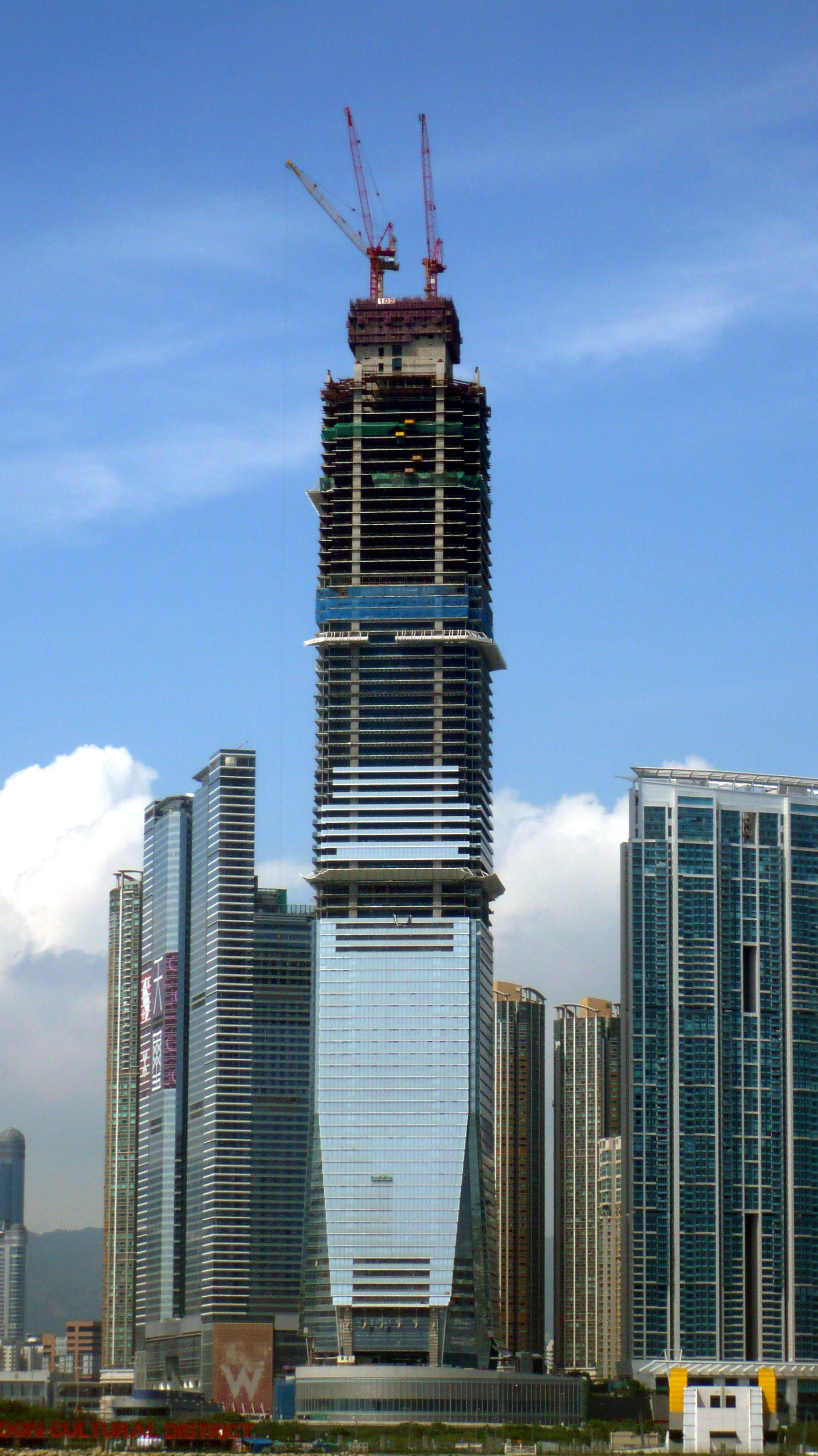 ICC Under Construction, May 2008